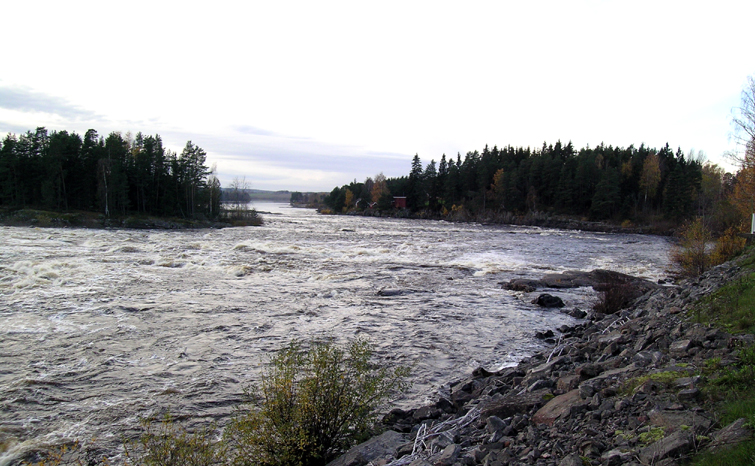 Funnefoss, Glomma, Nes, Akershus, Norway.